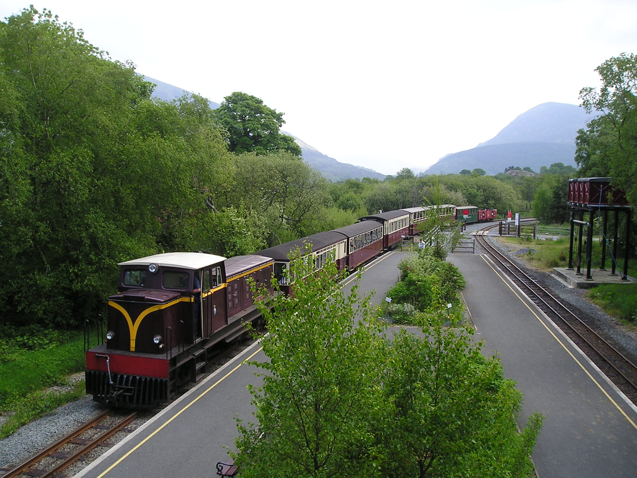 WHR train with diesel engine Castell Caernarfon at Waunfawr station